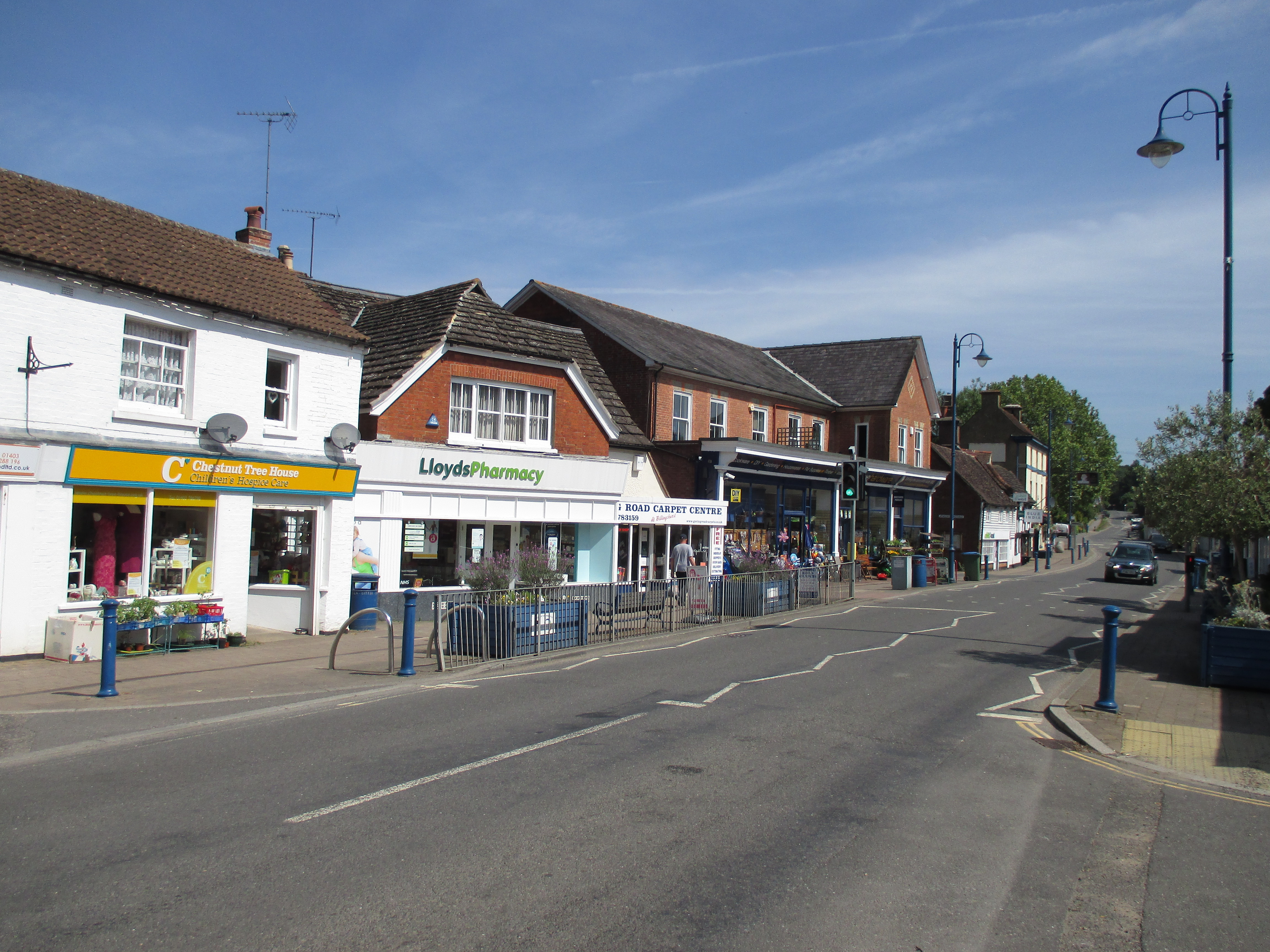 The west side of part of High Street, Billingshurst, West Sussex.